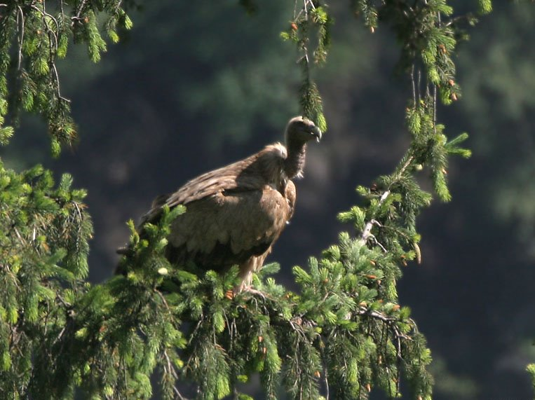 Himalayan Griffon Gyps himalayensis in Kolkata, West Bengal, India. Largest of the Gyps. with a size of about 120 cm., it is always a delight to watch it during Himalayan treks. Seen in the Himalayas from about 3000 ft. to say 13000 ft. THIS BIRD HAD ALWAYS FASCINATED THE TREKKERS ON THE WAY OVER THE YEARS, AS THEY SAW HIM GLIDE MAJESTICALLY IN THE VALLEYS OF HIMALAYAS FOR LONG PERIODS WITH GOOD VIEWS. IF WE REALLY CALL HIM THE KING OF HIMALAYAS, IT SHALL NOT BE INAPPROPRIATE. TAKEN ON WAY TO FUAL PANI (9500 FT.) IN HIMACHAL RECENTLY DURING SAR PASS TREK.